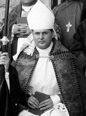 The consecration of Reginald Heber Weller as an Anglican bishop at the Cathedral of St. Paul the Apostle in the Protestant Episcopal Diocese of Fond du Lac. Rt. Rev. Charles P. Anderson, Episcopal Bishop Coadjutor of Chicago.